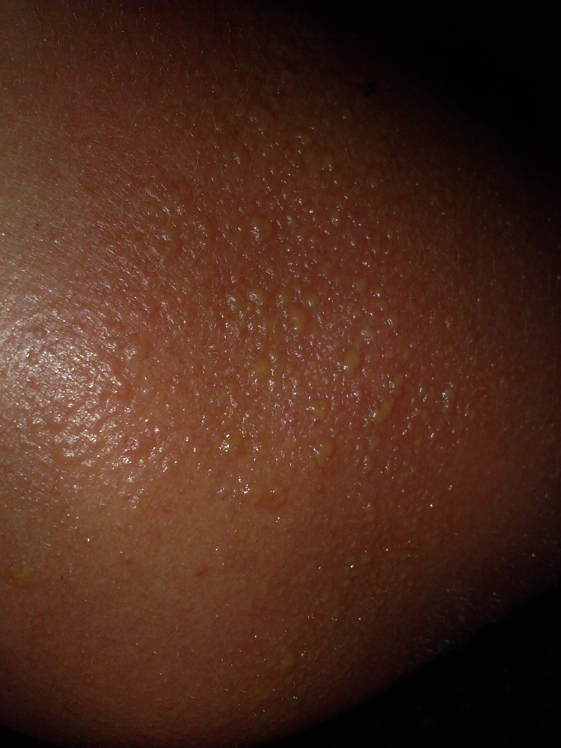 Sun Blisters on a shoulder after 48 hours of exposure to sun.